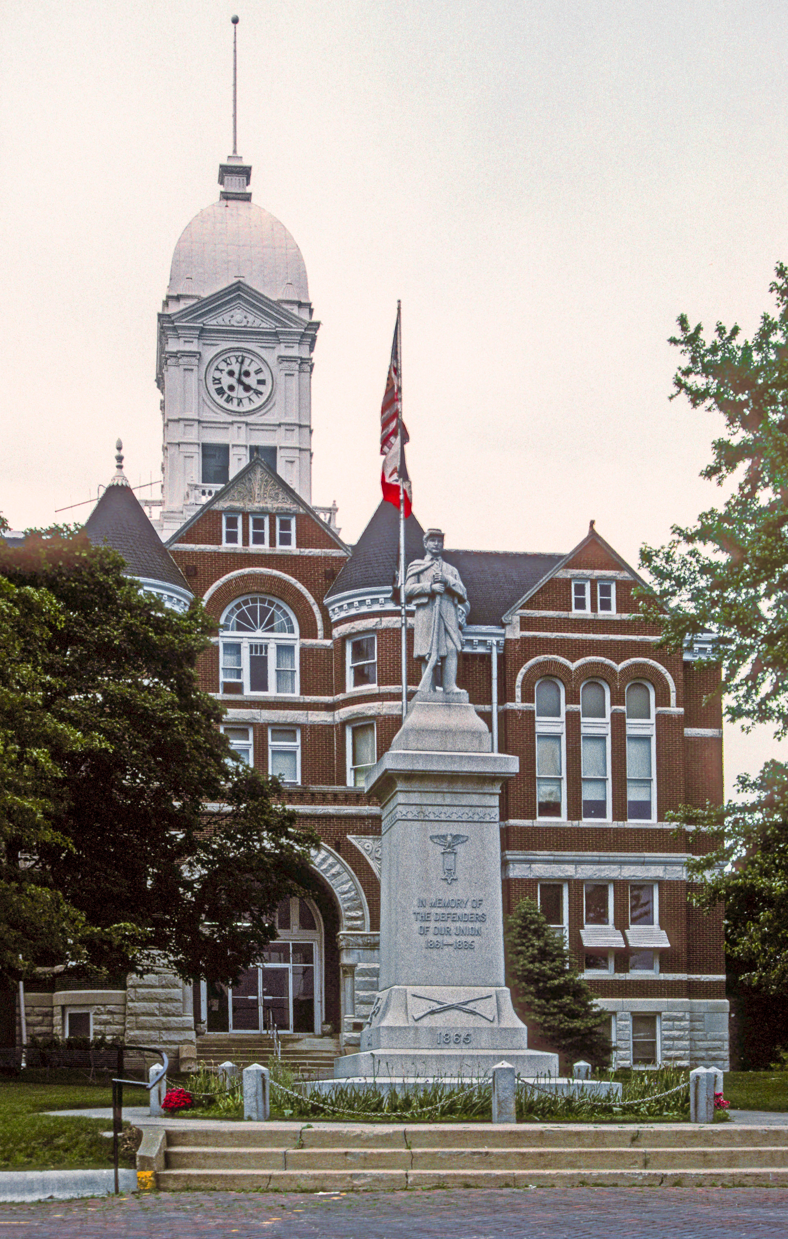 1892-93 VICTORIAN ROMANESQUE; CIVIL WAR MONUMENT IN FRONT OF THE COURTHOUSE